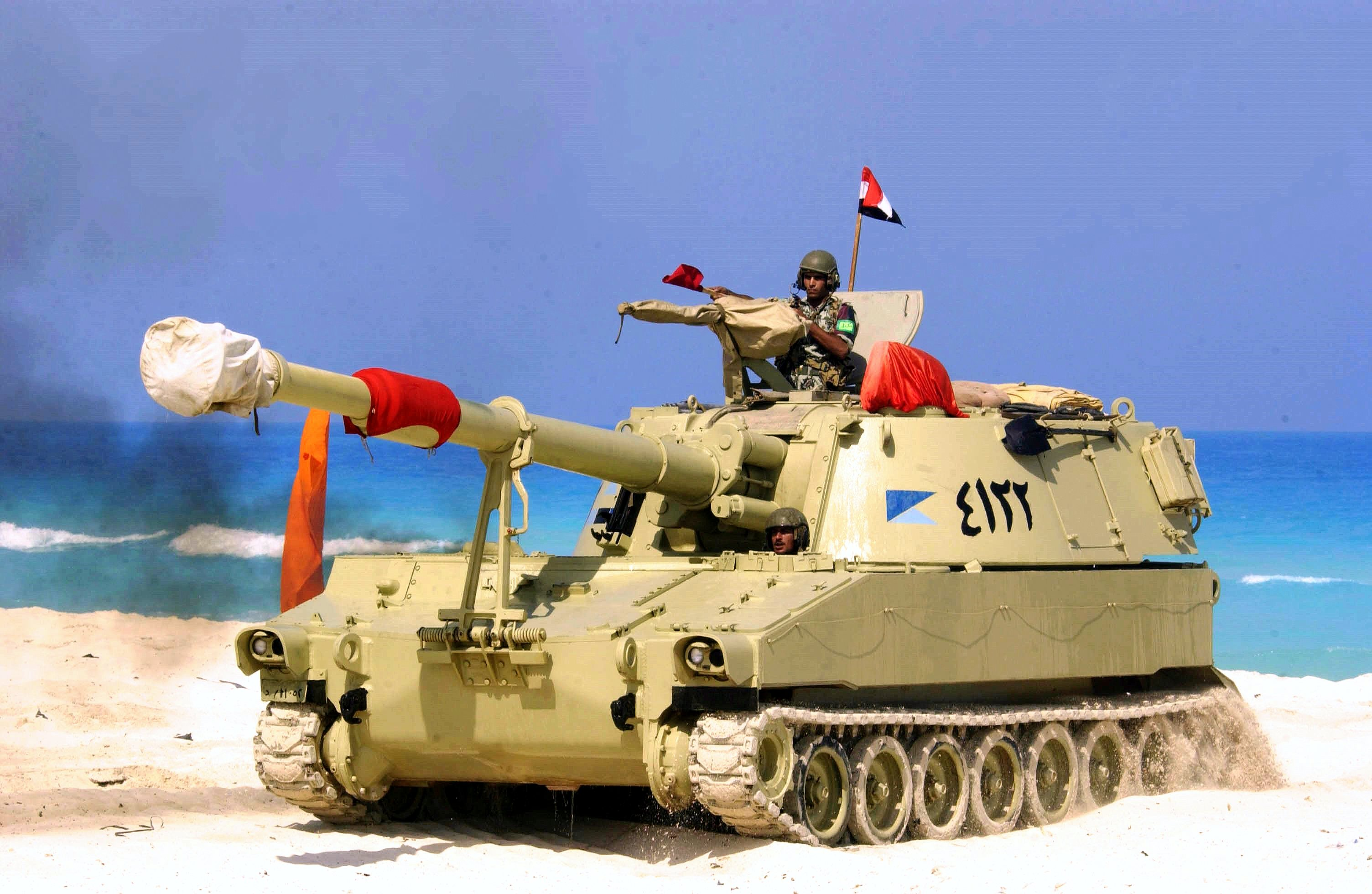 an Egyptian Soldier gives signals to his tanker while moving on shore after dismounting a U.S. Navy vessel during the Amphibious Landing Exercise on the Mediterranean Sea, Sept 15. The exercise is one of six major events conducted during the Central Command directed, Coalition Land Forces Component command/Third U.S. Army run Bright Star exercise.